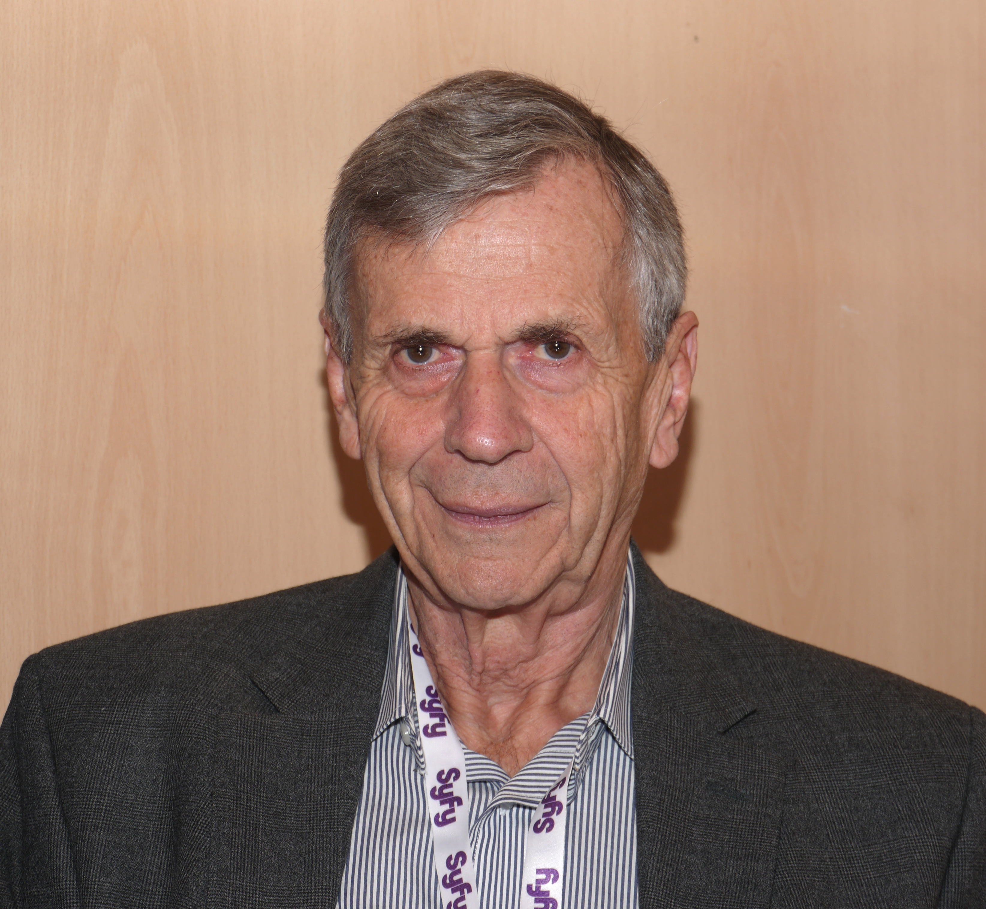 Toulouse Game Show Festival, 5th edition.